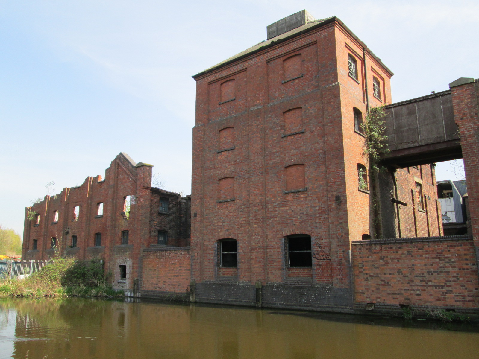 Langley Maltings, in Langley, Sandwell, West Midlands. Viewed from the towpath of Titford Canal.